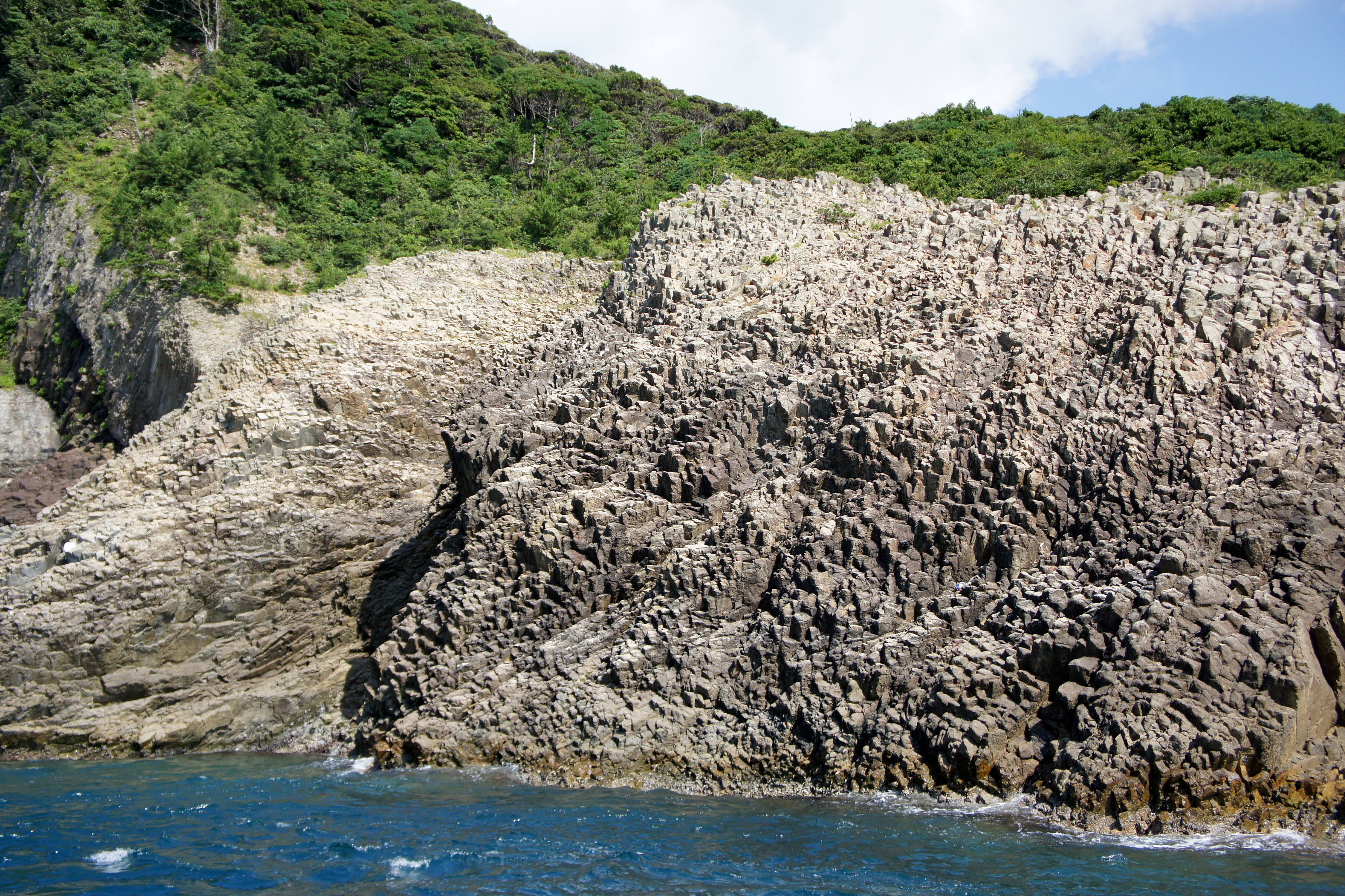 Mio-ohshima of Tajima mihonoura in Shinonsen, Hyogo prefecture, Japan